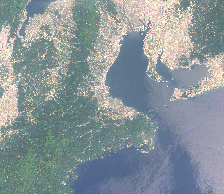 LANDSAT photo of Ise Bay, Japan.